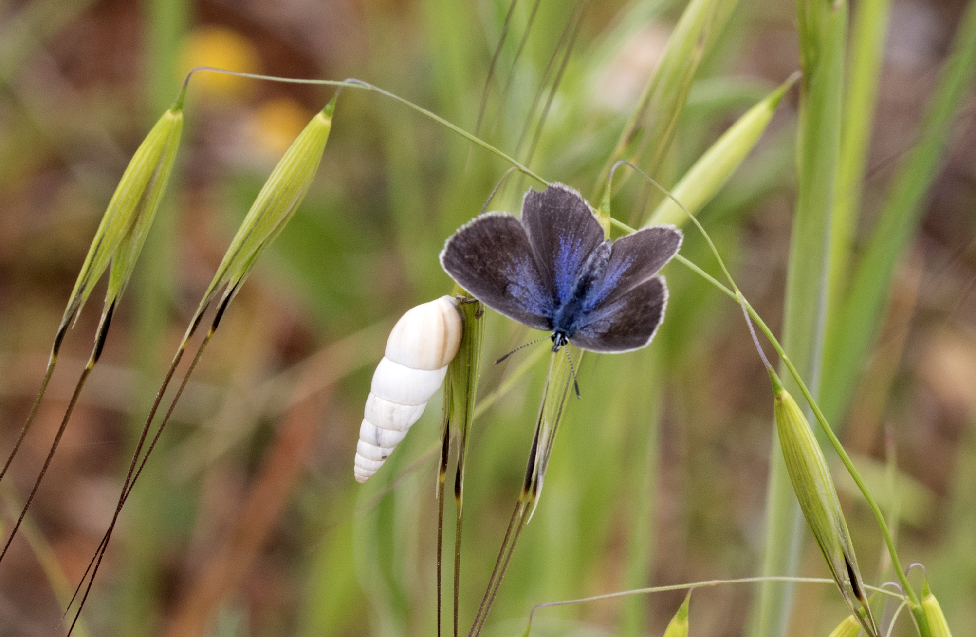 Wing upperside view of a female specimen of Green-underside Blue (Glaucopsyche alexis). Balcalı, Adana - Turkey.